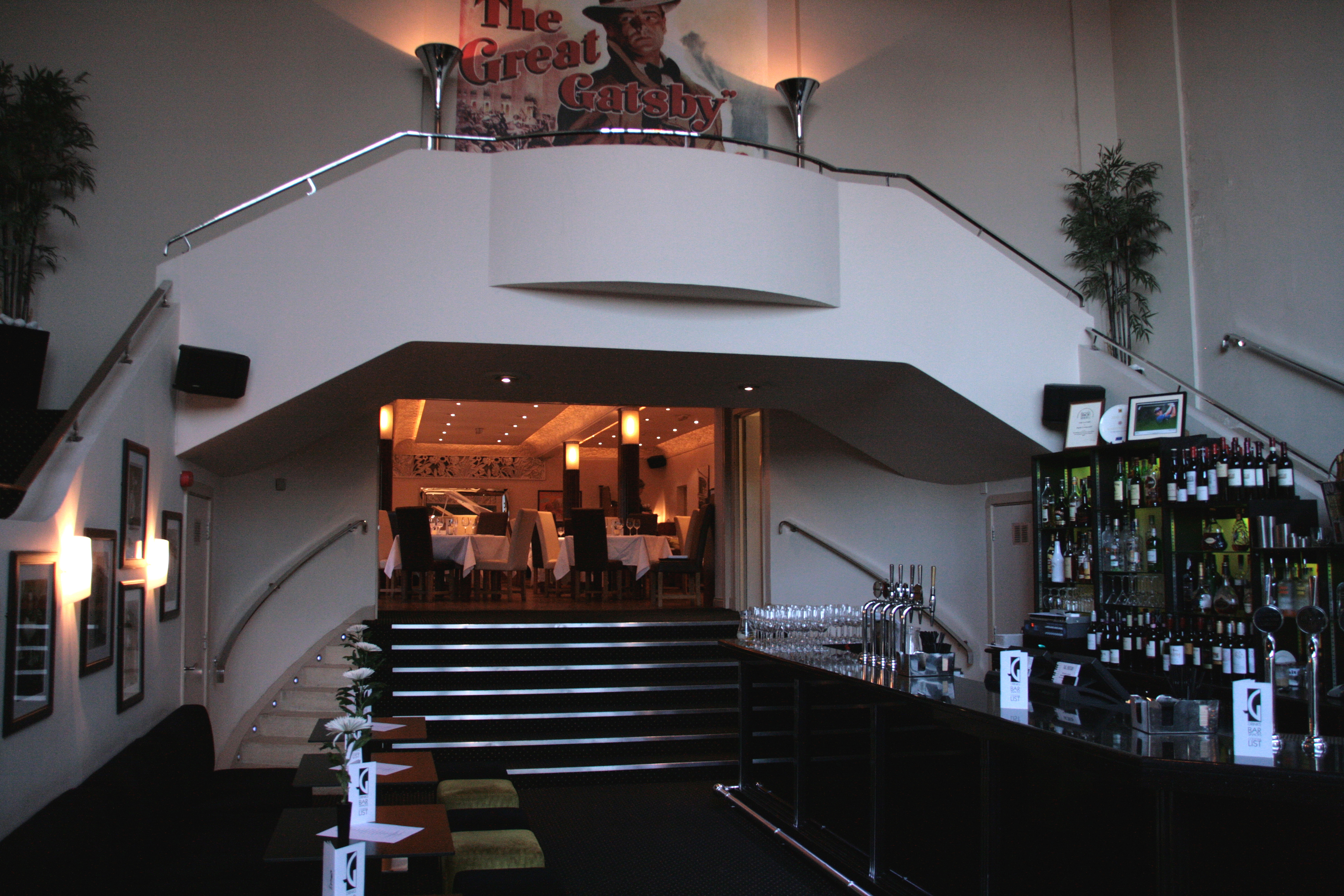 Interior of the Gatsby bar, inside the Rex Cinema, Berkhamsted, UK